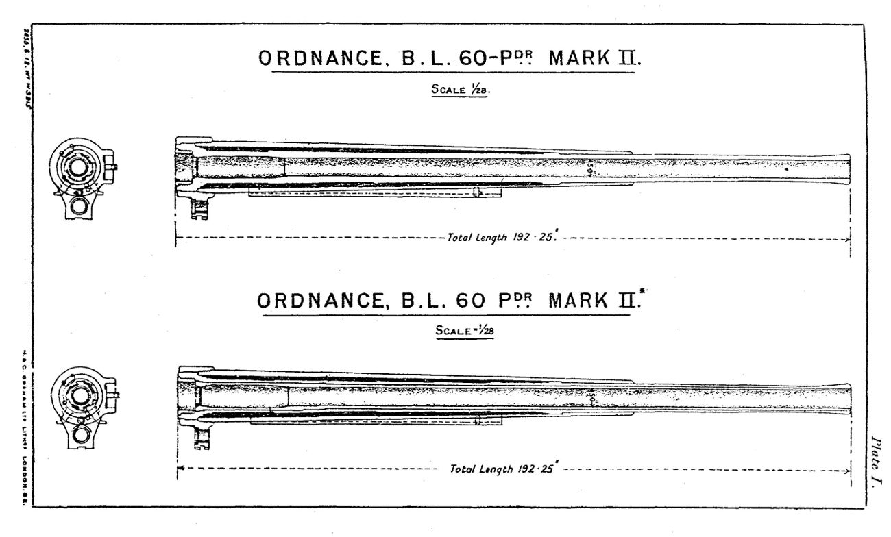 Diagrams showing construction and dimensions of British BL 60-pounder gun Mark II and II*.